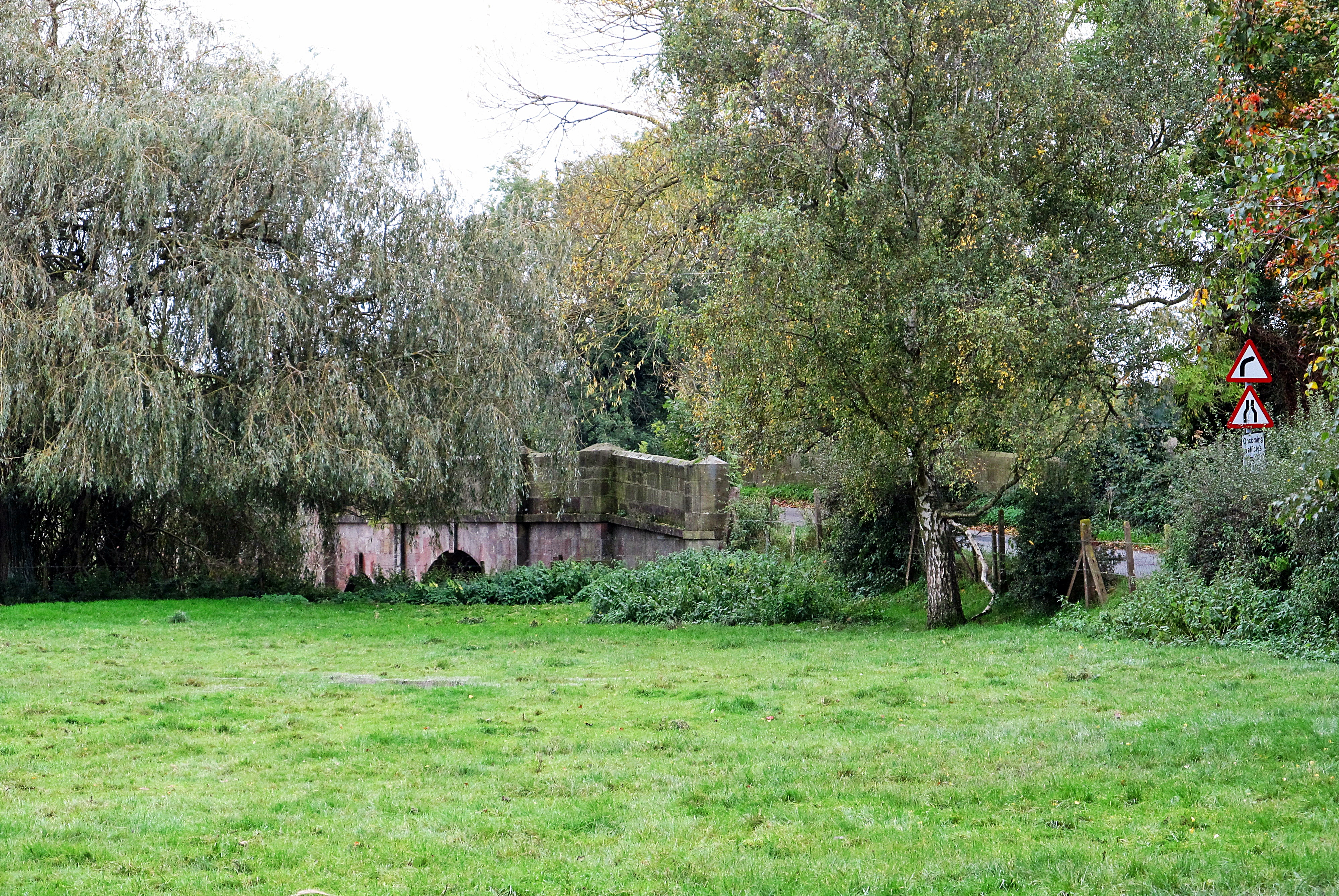 Welham-Bridge over the River Welland (the rgird)